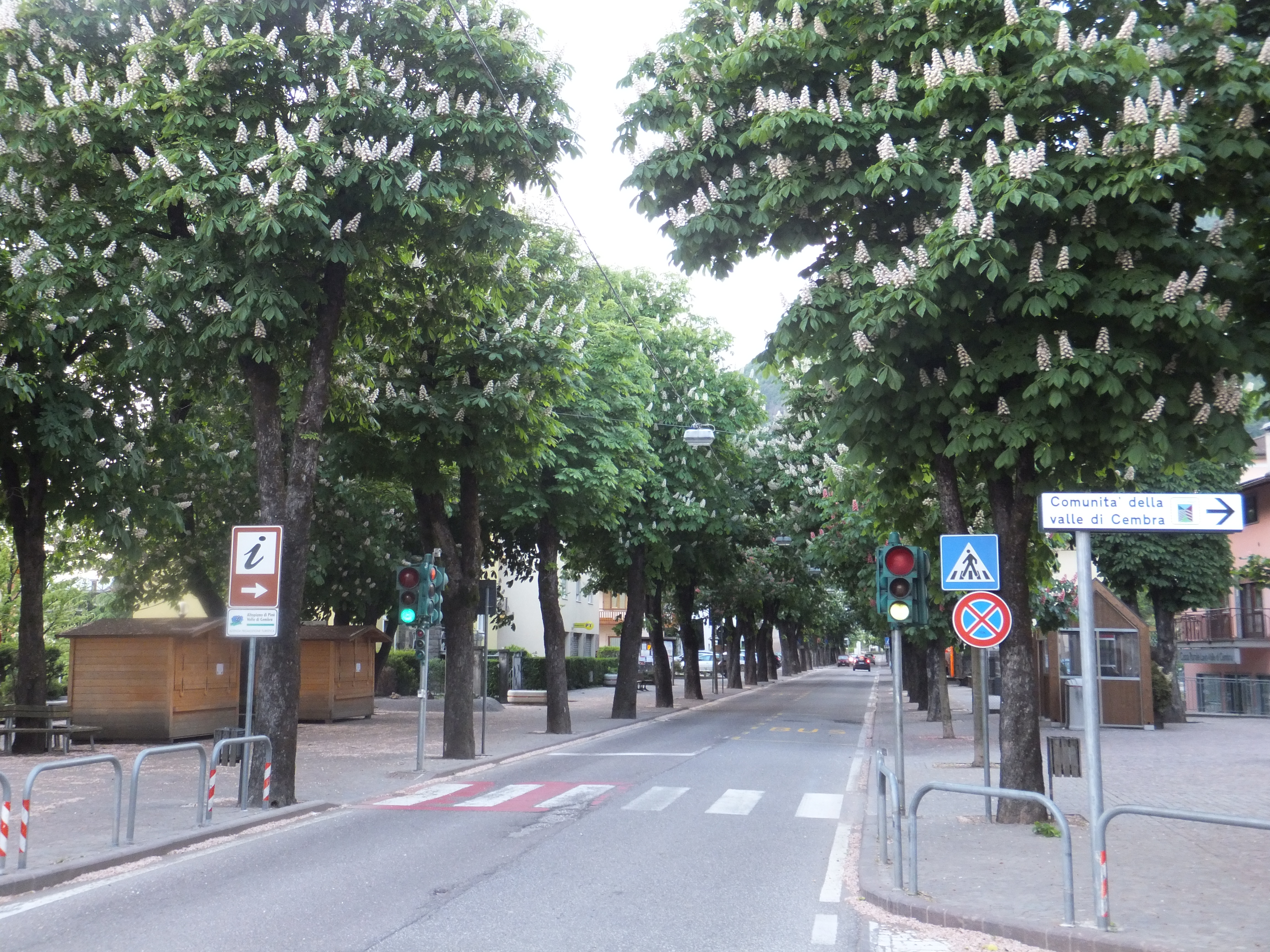 Cembra - Boulevard